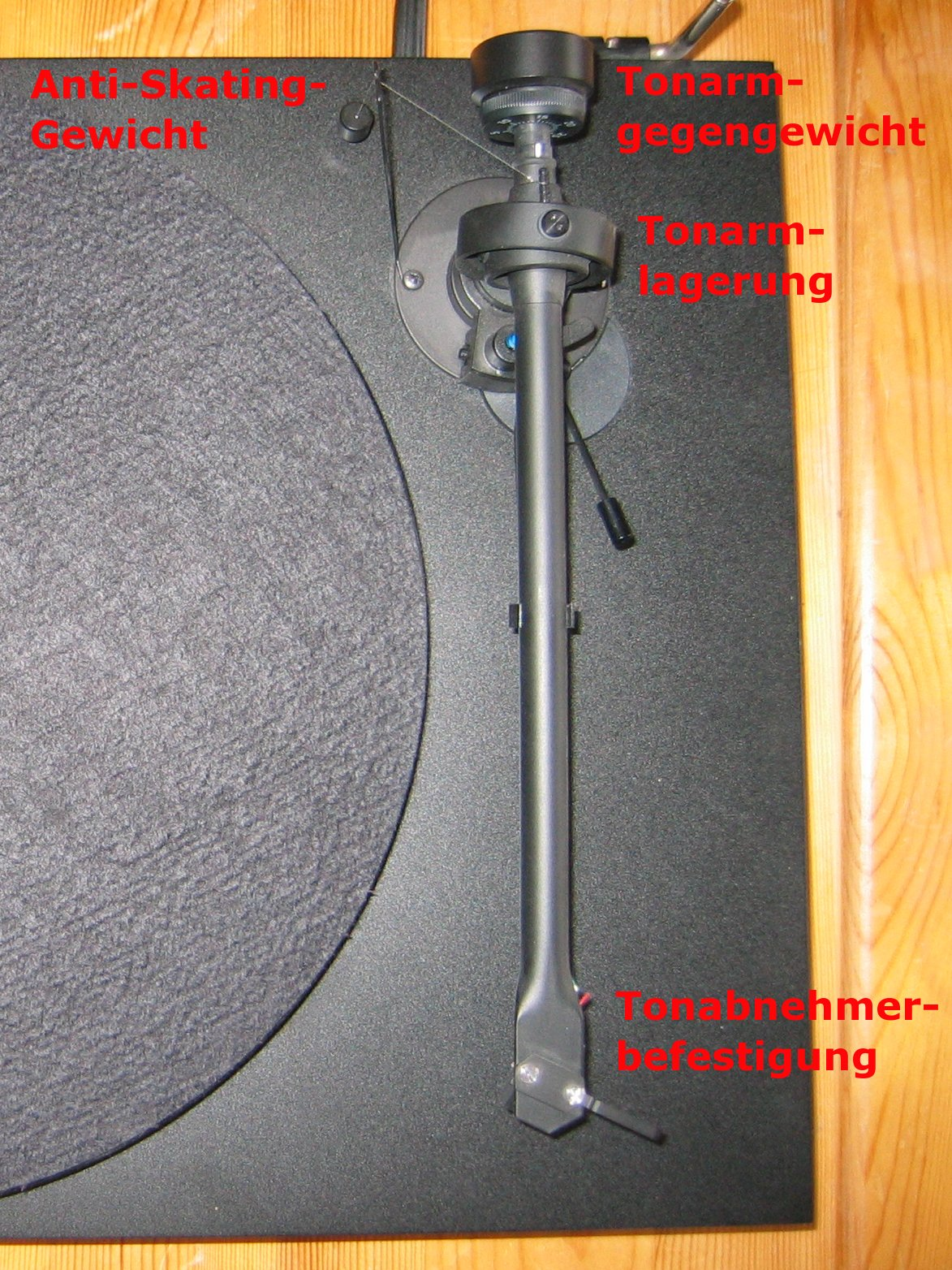 Entry-level Pro-ject turntable with stock tone arm.